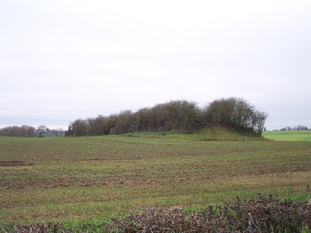 End of the Line - The Worcester, Dean Forest and Monmouth Railway. The railway that never was. Begun in 1862 by Osman Ricardo (son of the MP David Ricardo) owners of Pauntley Court. He excavated into the hillside along the edge of Collin Park Wood and subsequently built the embankment still visible here. The company soon collapsed and work was halted.